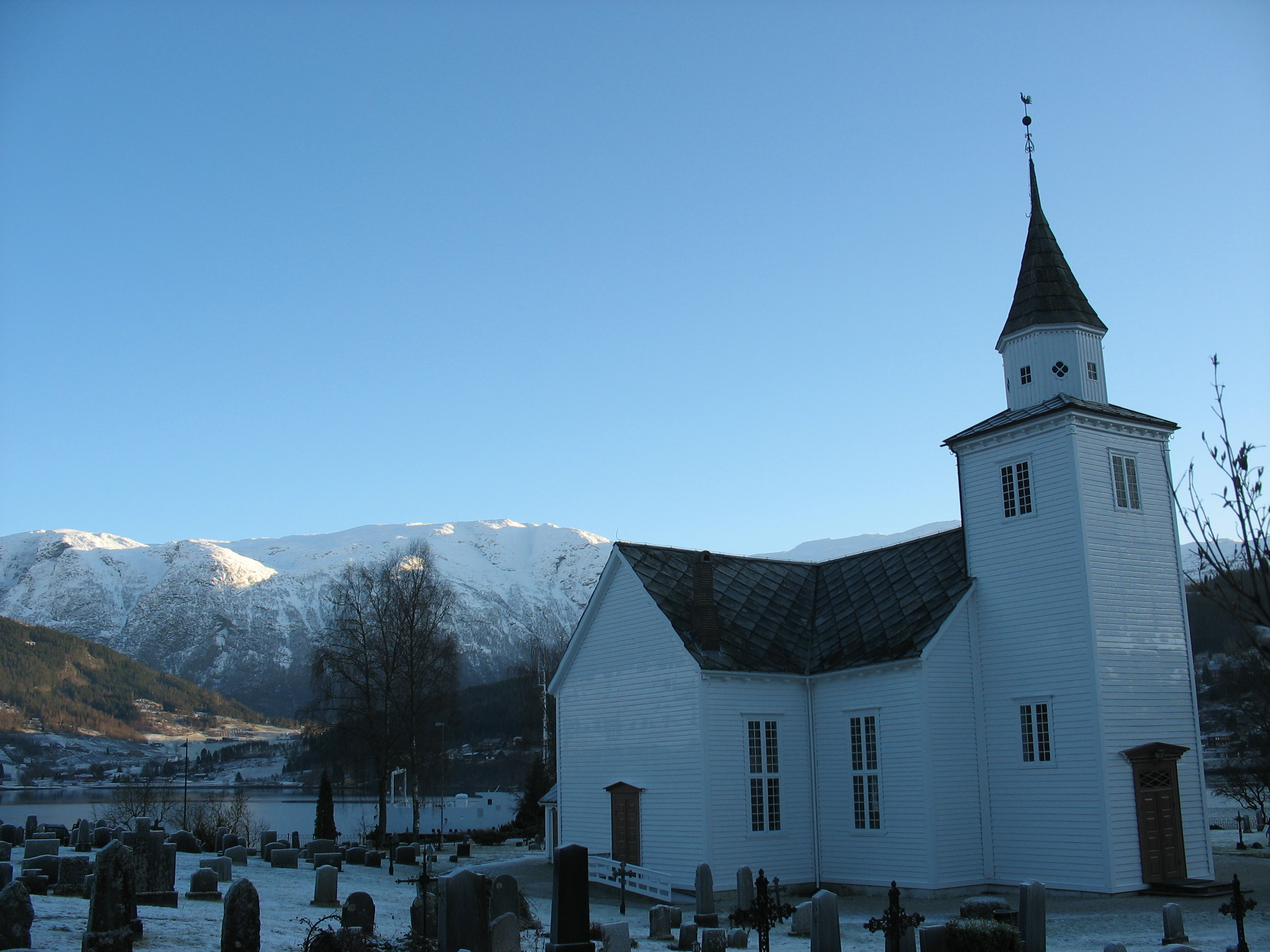 The church of Ulvik on a cold winters day. Photographer: Alison Roberts